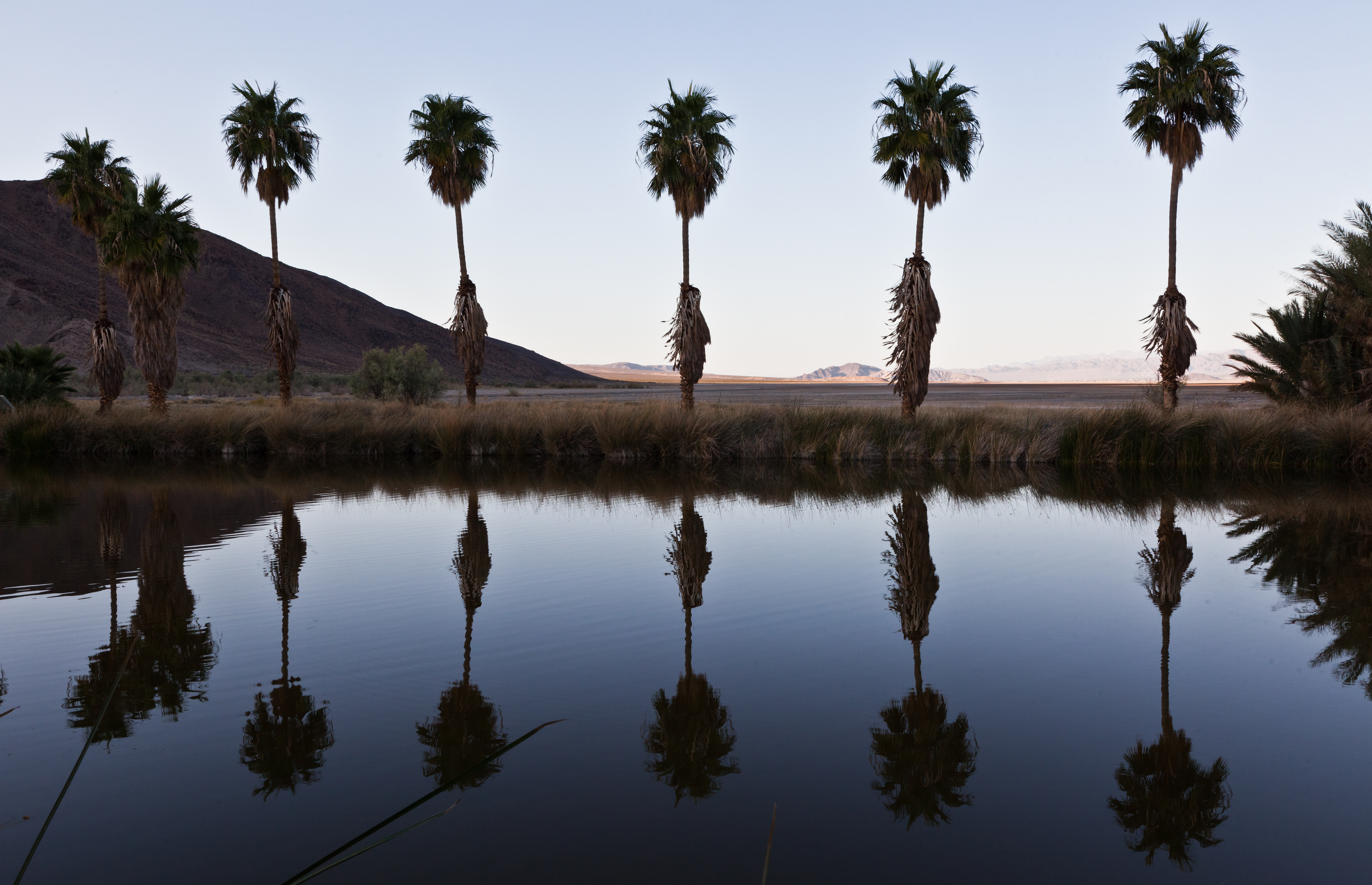 CA Fan Palms Reflect in Lake Tuendae Oasis at Zzyzx. Lake Tuendae the Oasis artificial pond at Zzyzx Desert Studies Center, in the Mojave Desert. Washingtonia filifera (filifera - Latin "thread-bearing"), with the common names California Fan Palm [1], Desert Fan Palm, Cotton palm, and Arizona Fan Palm. It is a palm native to southwestern North America between an elevation range of 100–1,200 metres (330–3,900 ft), at seeps, desert bajadas, and springs where underground water is continuously available. From a weekend University of Riverside birding class 112−CPF−F62, Oct 21-23, 2011, at the Desert Studies Center at Zzyzx, CA, led by instructor Kurt Leuschner KLeuschner [at} collegeofthedesert d o t edu. AKA Birds of the Mojave Desert BIOL X404.2 Photo © 2011 “Mike” Michael L. Baird, mike {at] mikebaird d o t com, , Canon EOS 5D Mark II 21.1MP Full Frame CMOS Digital SLR Camera with EF 24-105mm f/4 L IS USM Lens, tripod, circular polarizer, RAW.